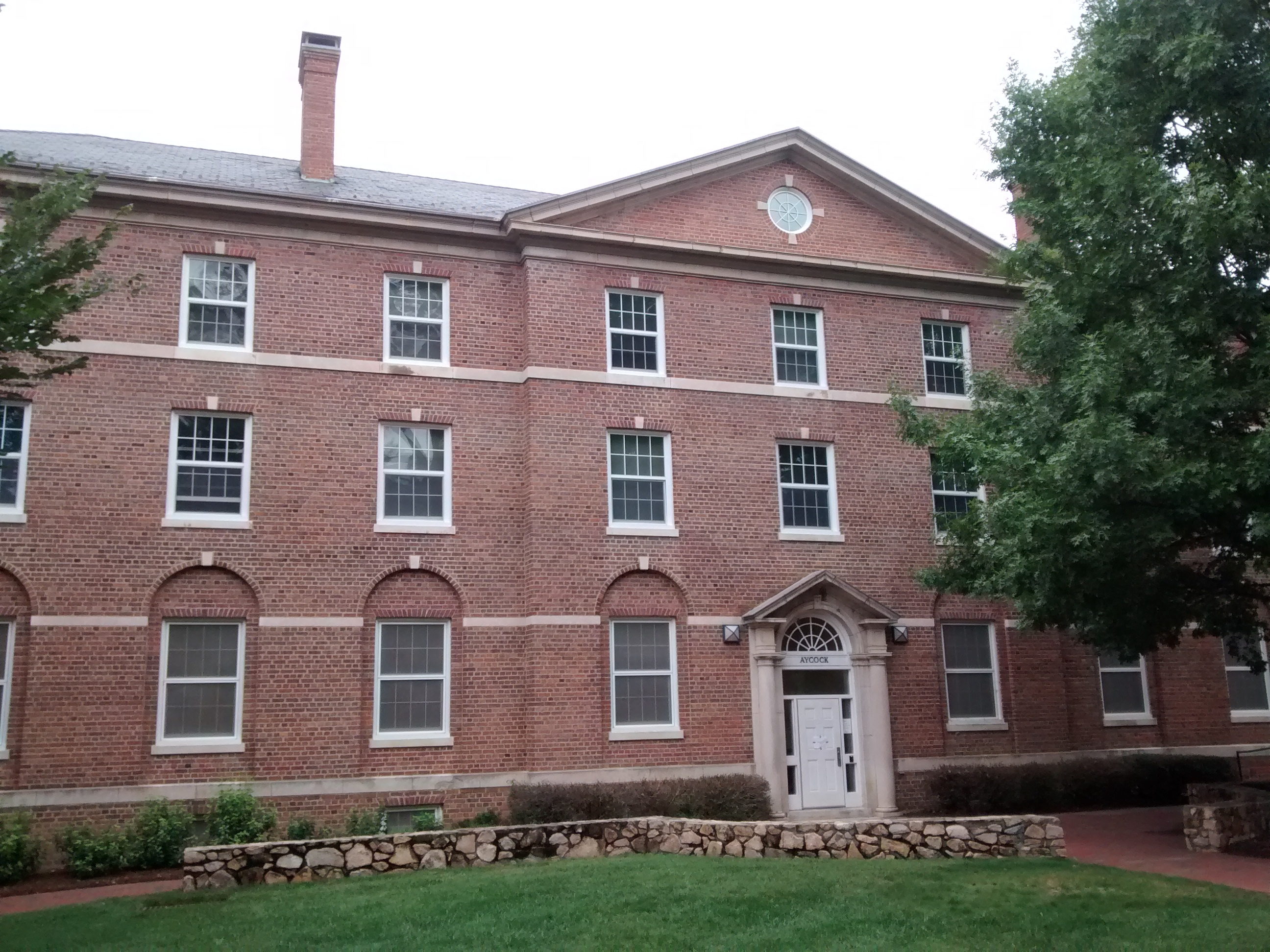 Aycock Residence Hall at the University of North Carolina at Chapel Hill.